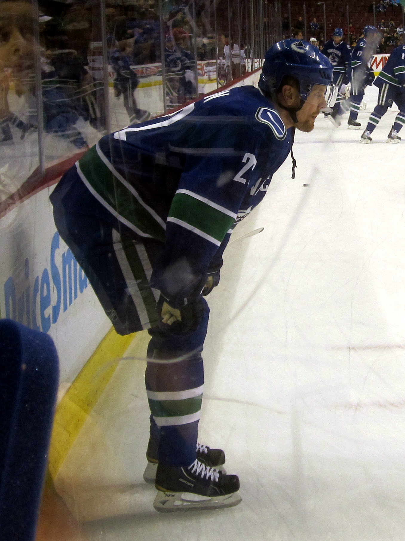 Vancouver Canucks forward Daniel Sedin during a pre-game warmup on March 14, 2012.